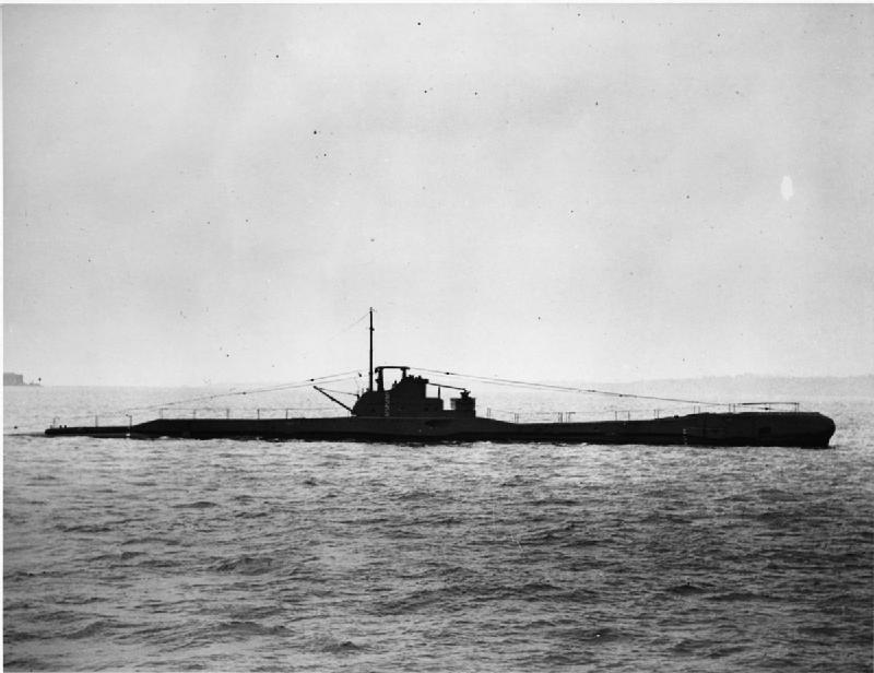 British T class submarine HMSM TRITON underway.